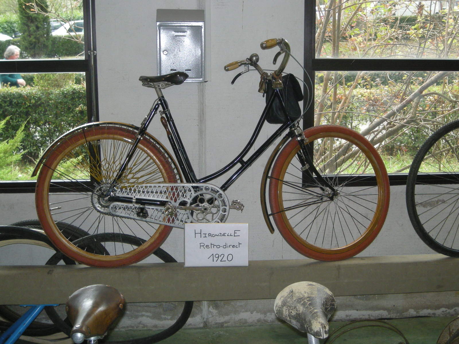 1920 Hirondelle bike equipped with Retro-direct.